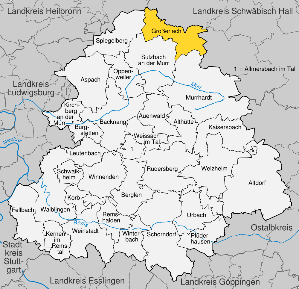 position of Großerlach within the Rems-Murr-Kreis, Baden-Württemberg, Germany